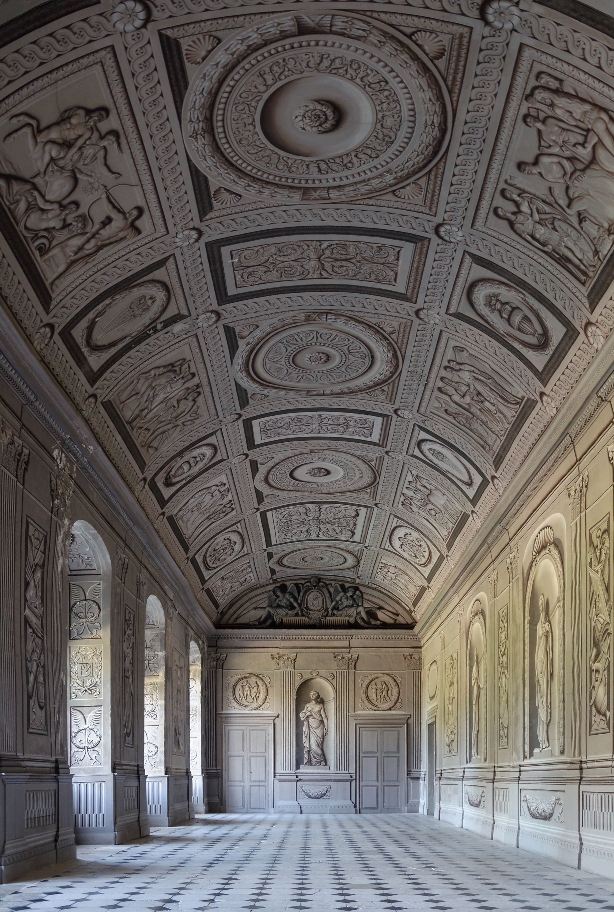 Château de Tanlay, Yonne department, Burgundy, France: gallery with grisaille frescoes painted in trompe-l’œil.